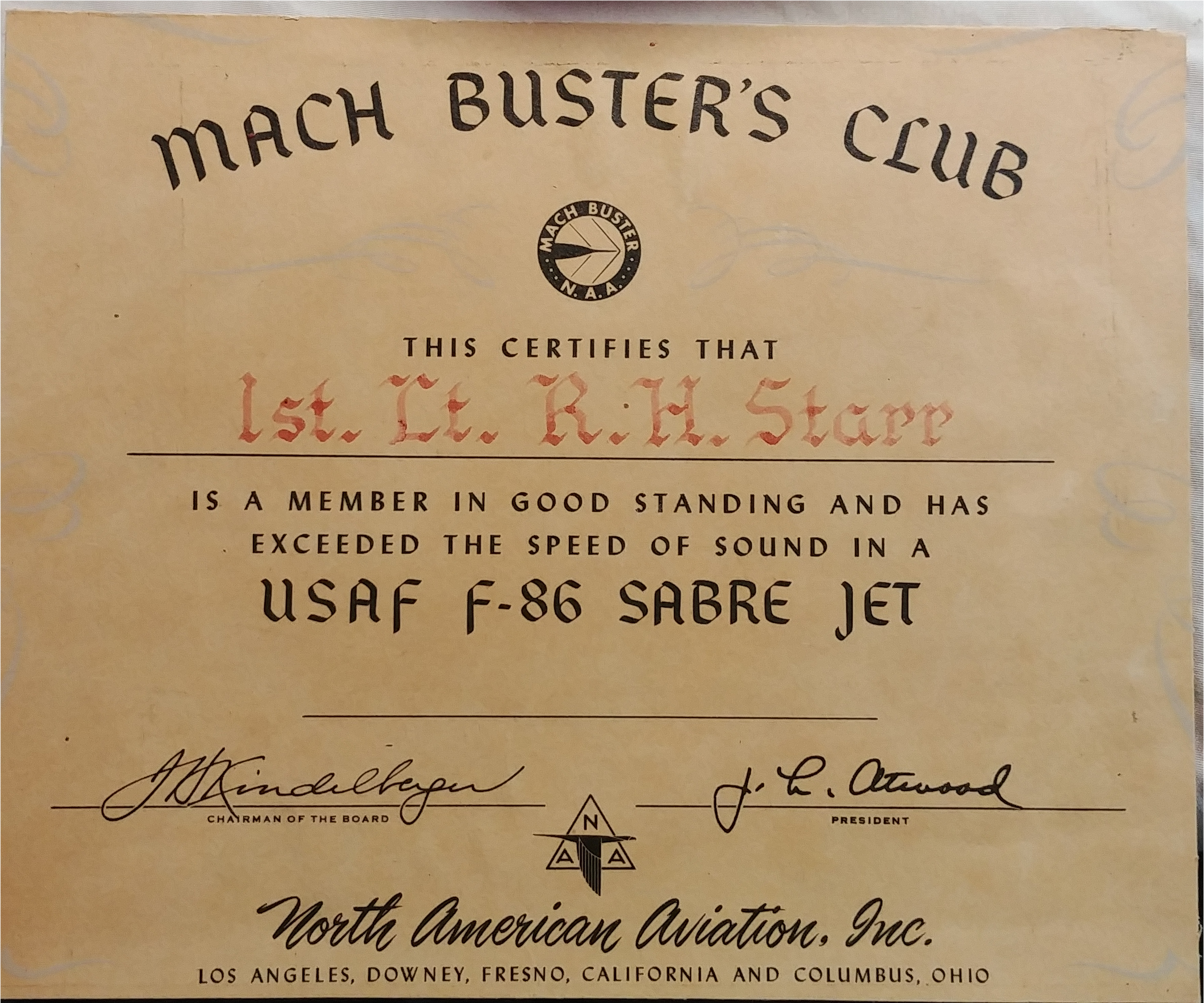 Starr breaks Mach One